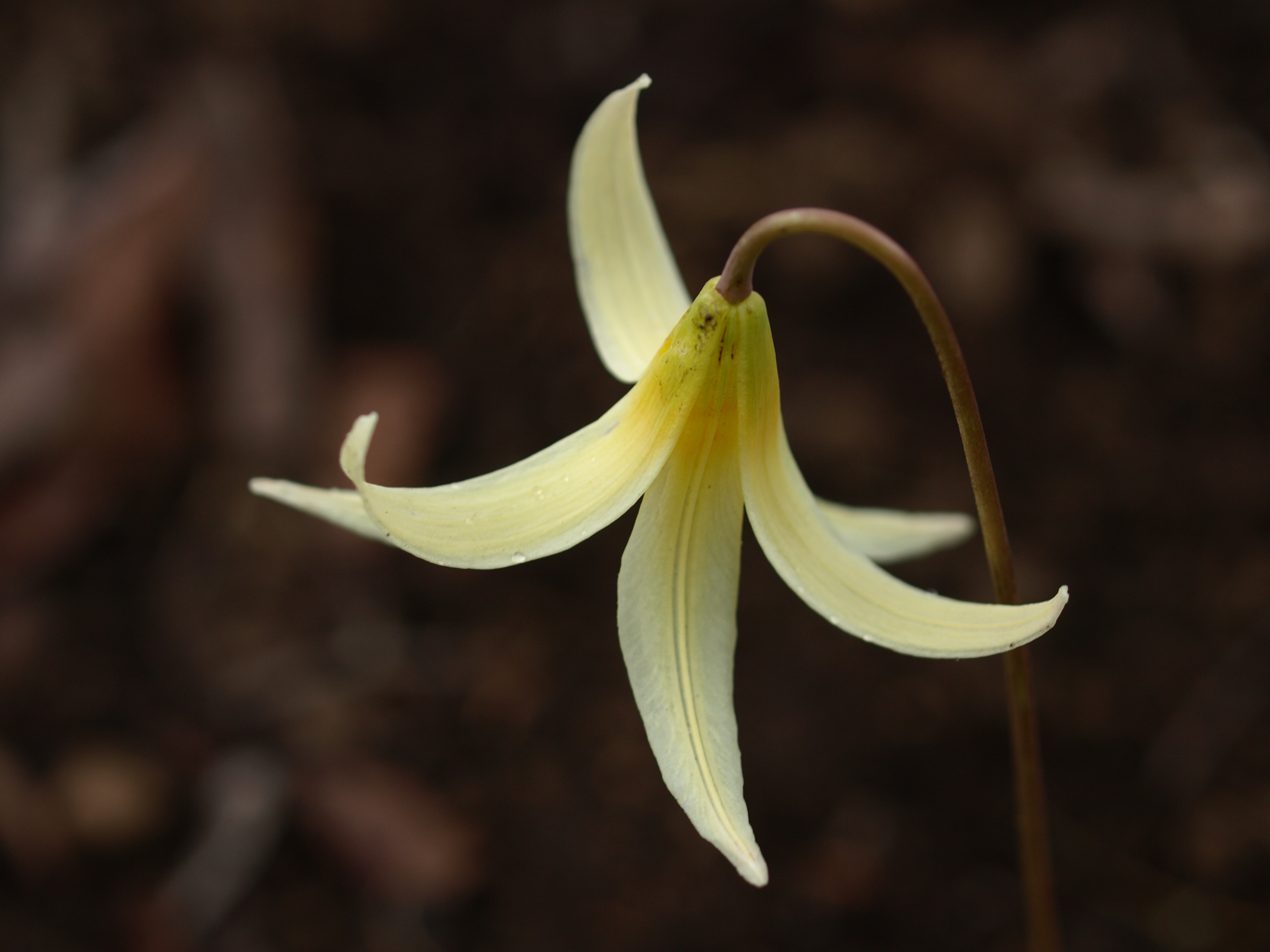 erythronium oregonum in Portland, OR